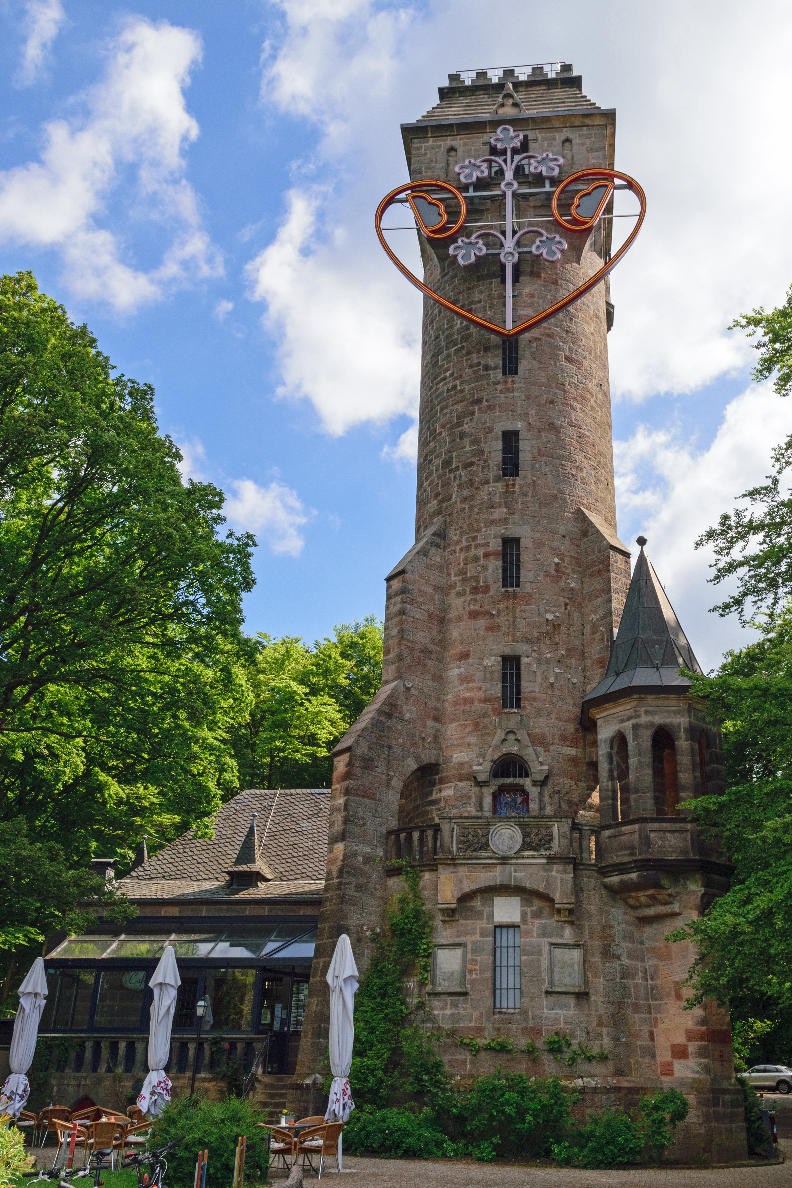 "Spiegelslust", also called William I tower in Marburg